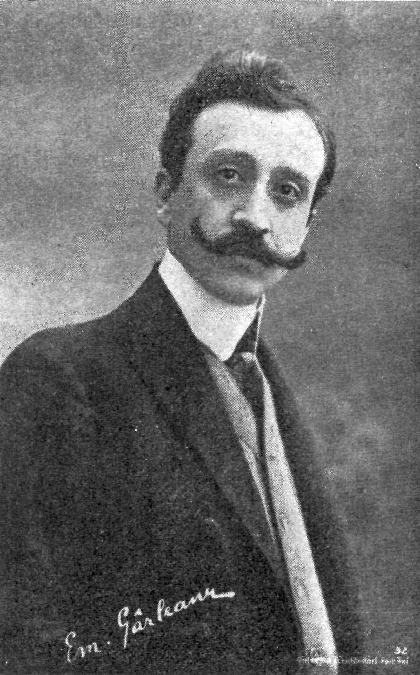 Emil Gîrleanu (1879 - 1914)